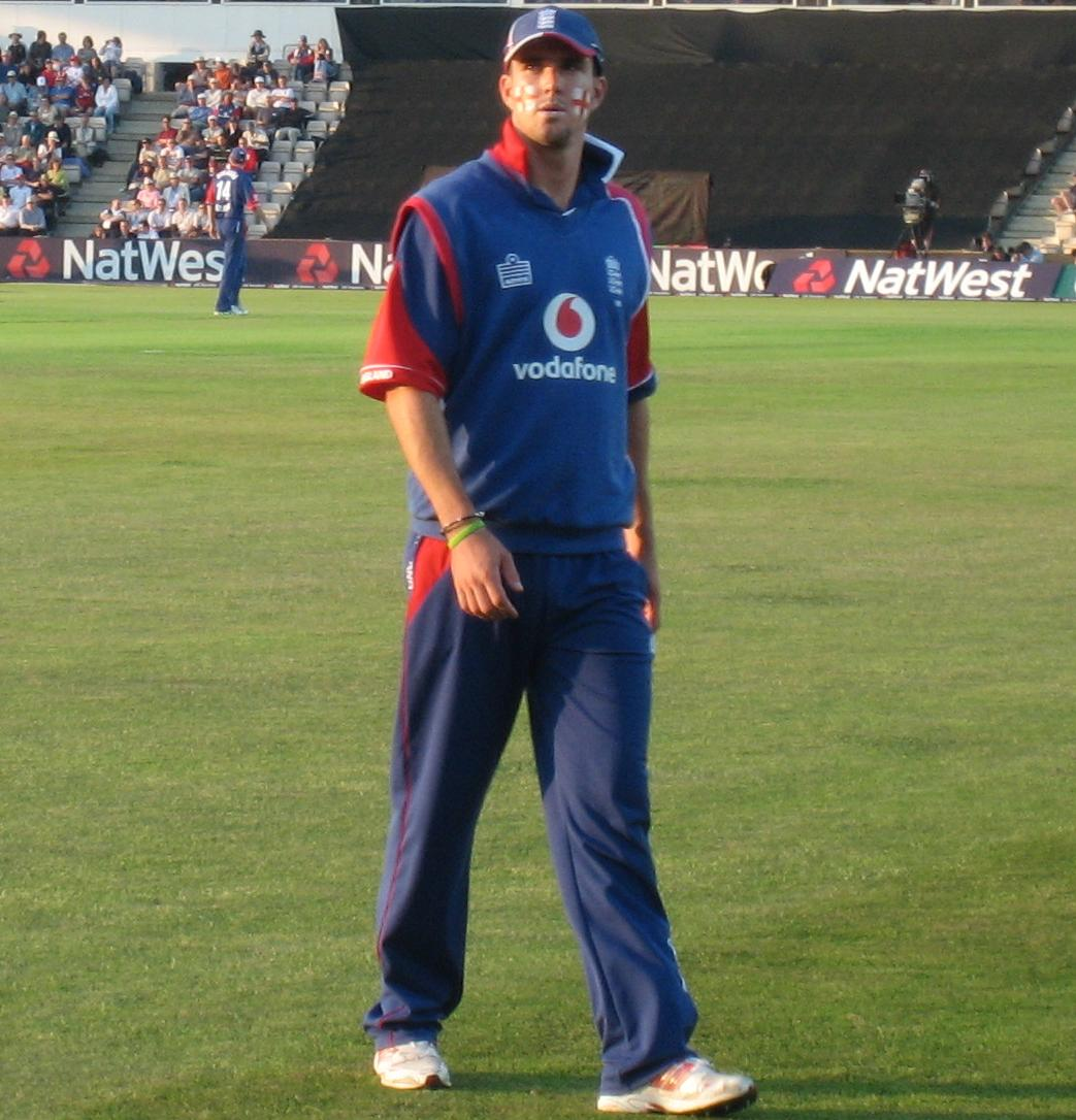 Kevin Pietersen fielding during a T20 match against Sri Lanka. Scorecard.